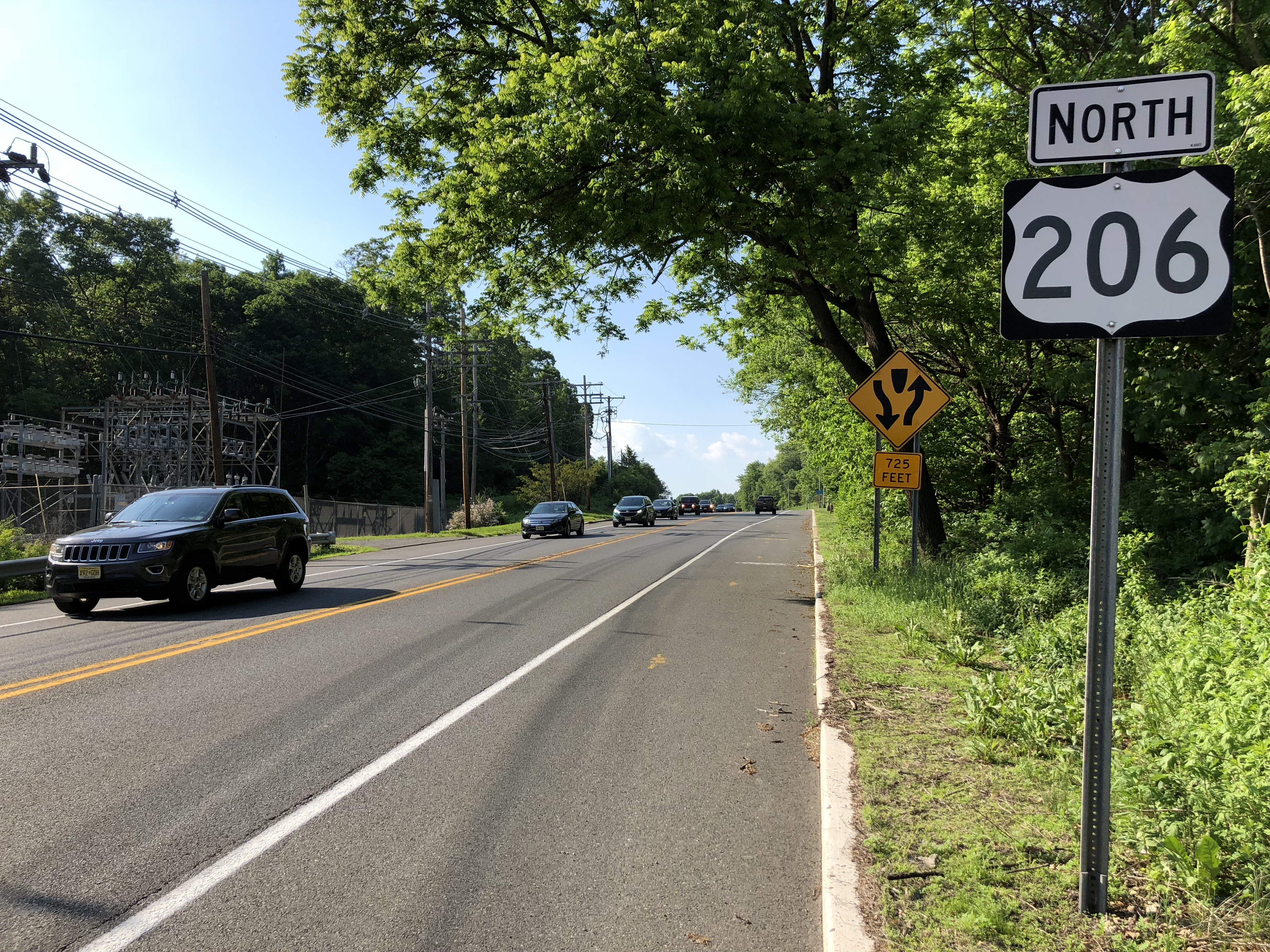 View north along U.S. Route 206 at Somerset County Route 661 (Holland Avenue) in Peapack-Gladstone, Somerset County, New Jersey